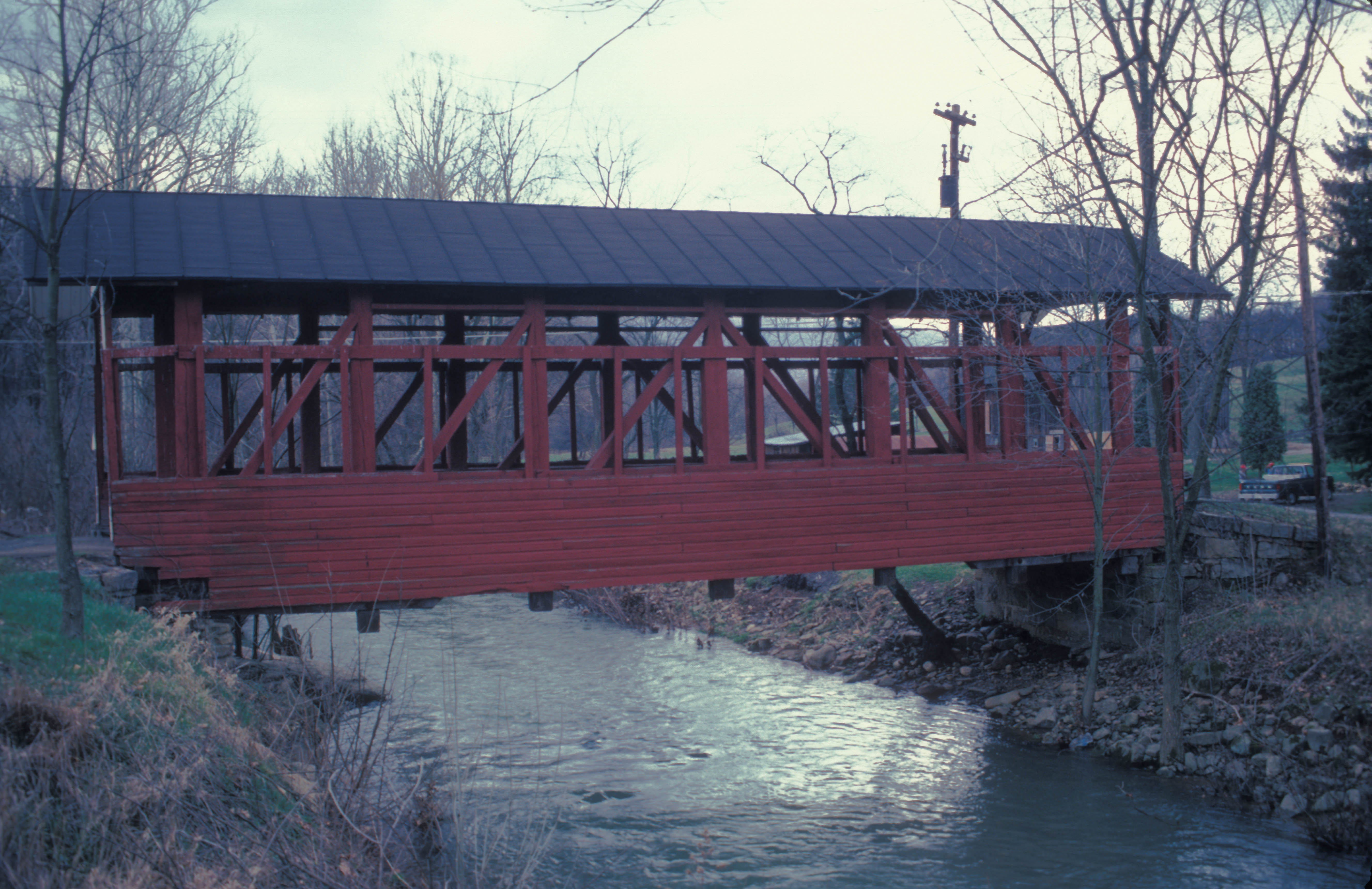 1880 FITCHNER/PALO ALTO CB OVER GLADDENS RUN 56’ MKING